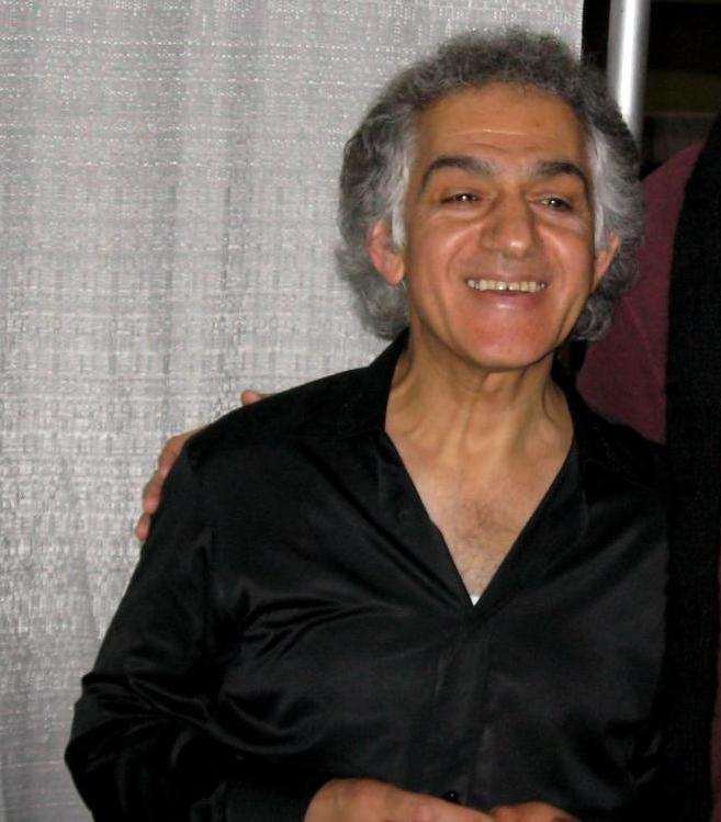 Omar Faruk Tekbilek at 2009 Atlanta Turkish Festival. (cropped)